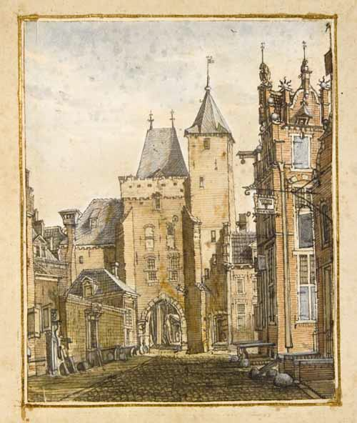 Janspoort in Arnhem, The Netherlands, painted in 1742 by Jan de Beijer